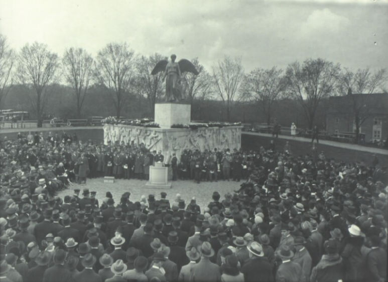 Inauguration of Søfartsmonumentet on 9 May 1928 in Copenhagen, Denmark